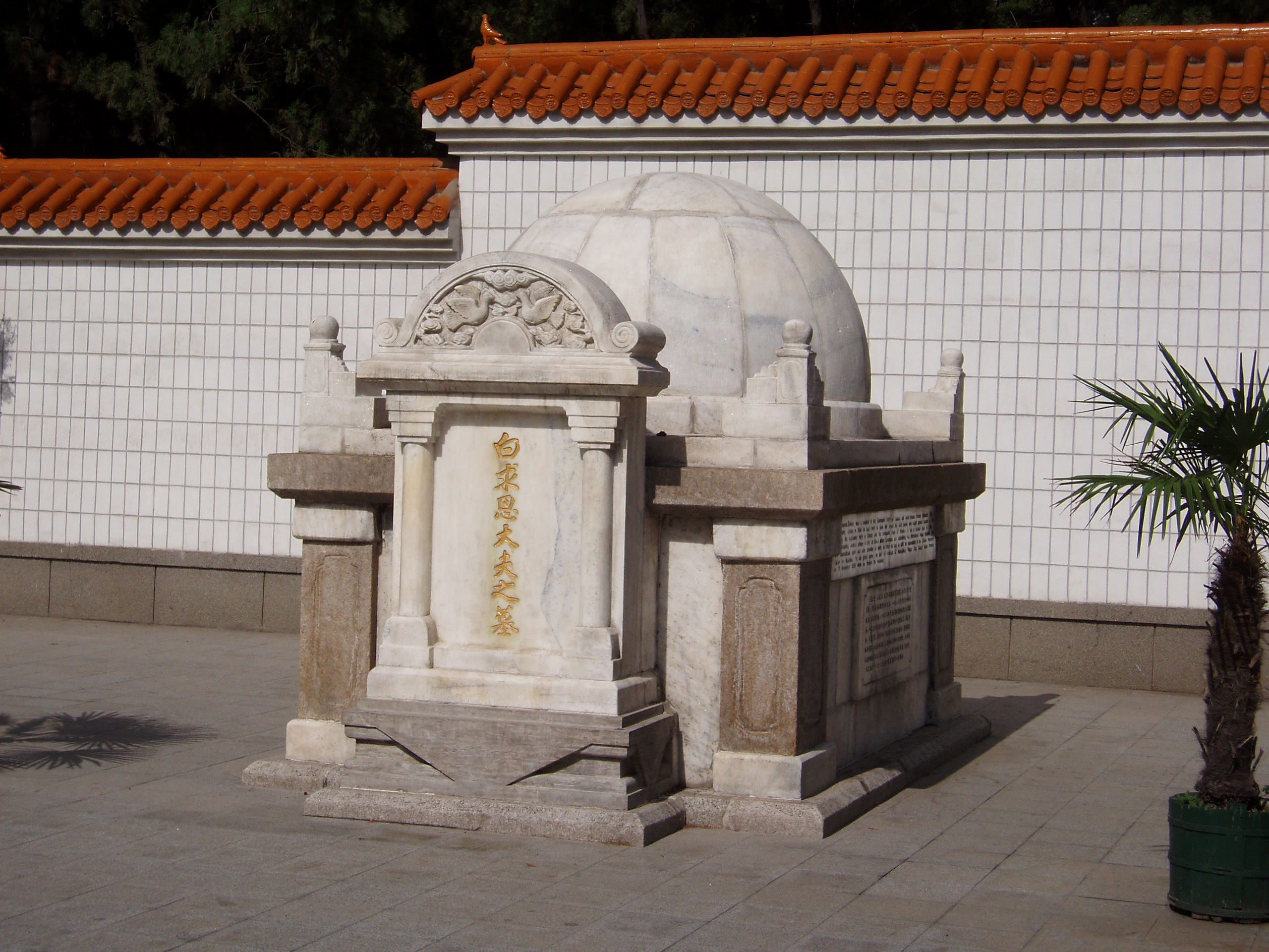 Norman Bethune’s Chinese style tomb in North China Martyrs’ Memorial Cemetery, Shijiazhuang, China